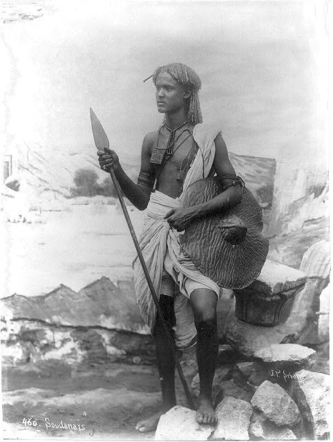 Sudan warrior - Native types of Africa. 192?